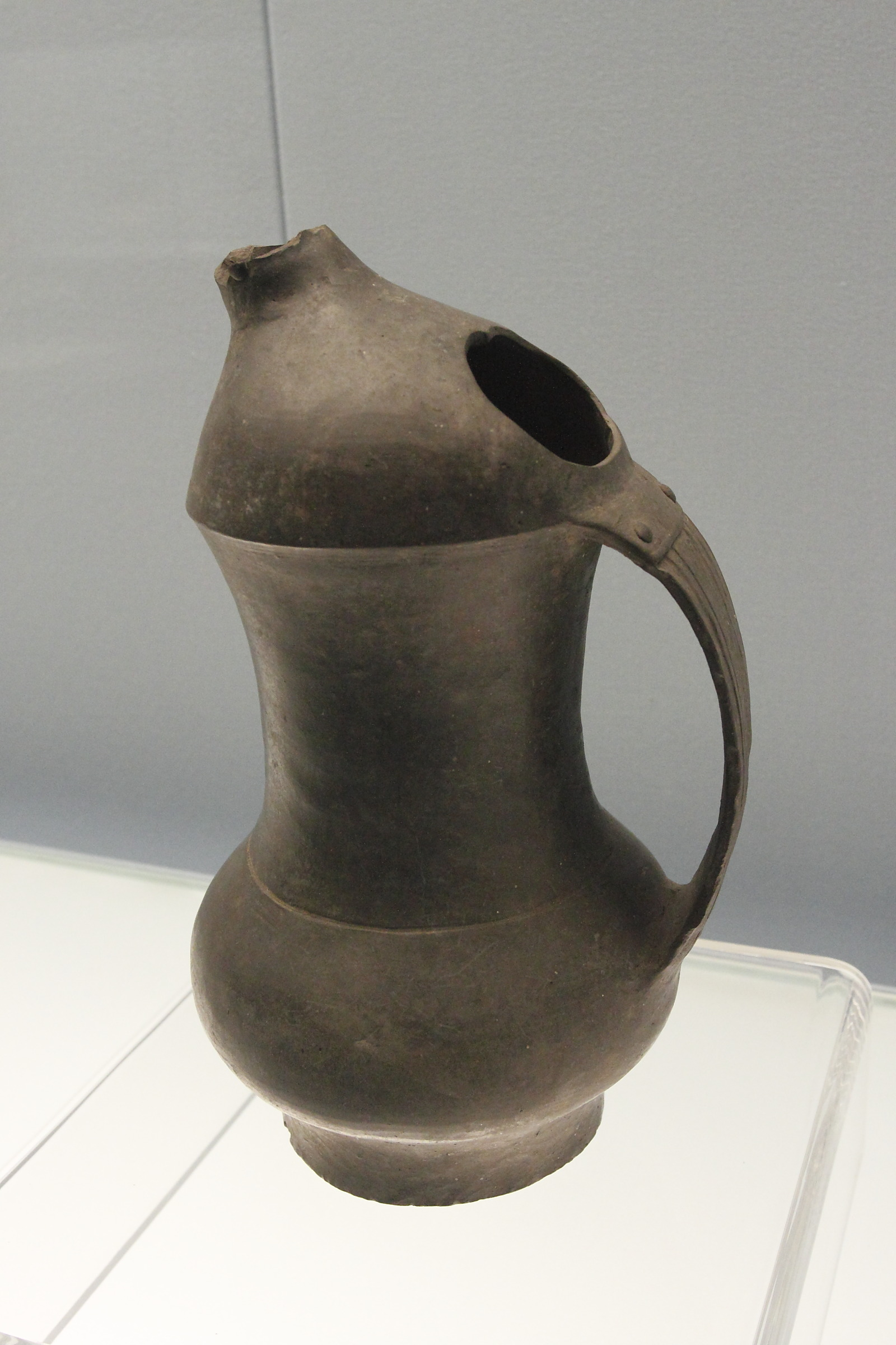 Black Pottery He Ewer, Longshan Culture，2400～2000 B.C., a collection of Shanghai Museum